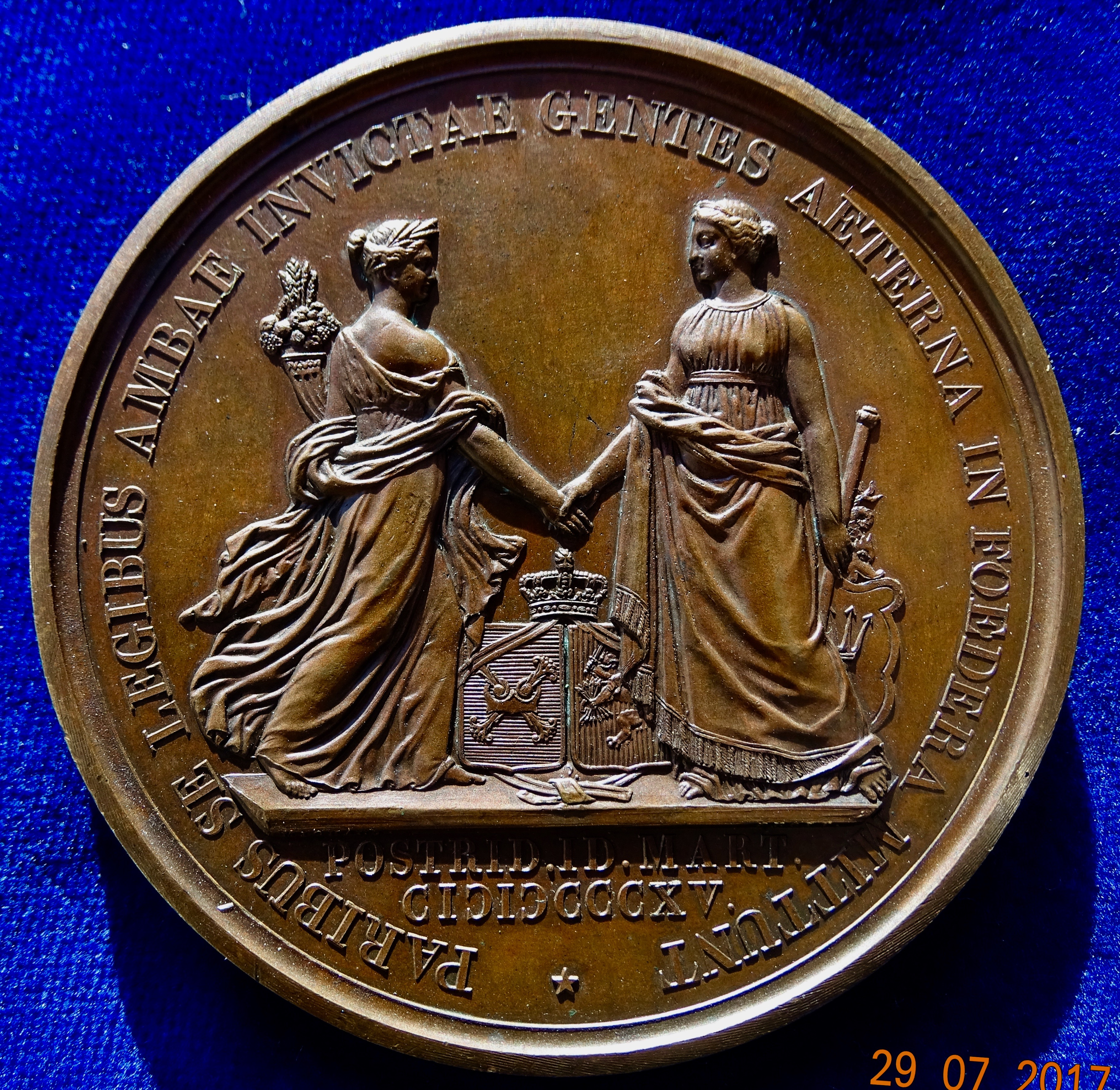 The Netherlands & Belgium 1815 Unification Medal of William I, Prince of Orange-Nassau. Bronze medal, d. = 72 mm. William I (Willem Frederik, Prince of Orange-Nassau), King of the Netherlands and Grand Duke of Luxembourg, 1815-1840 Head l., around: "WILH: NASS: BELG: REX. LUXEMB: M: DUX:"/ Fama Belgica l. and fama Hollandia r. holding hands above 2 arms conjoined by a crown. 2 lines below: "* POSTRID. ID. MART. CICIC CCCXV.", around: "* PARIBUS SE LEGIBUS AMBAE INVICTAE GENTES AETERNA IN FOEDERA MITTUNT *". Wurzbach 9751; Forrer IV , p. 64. Medallist: (Auguste Francois) Michaut, 1786 Paris - 1879 Versailles Condition: Almost UNCIRCULATED.